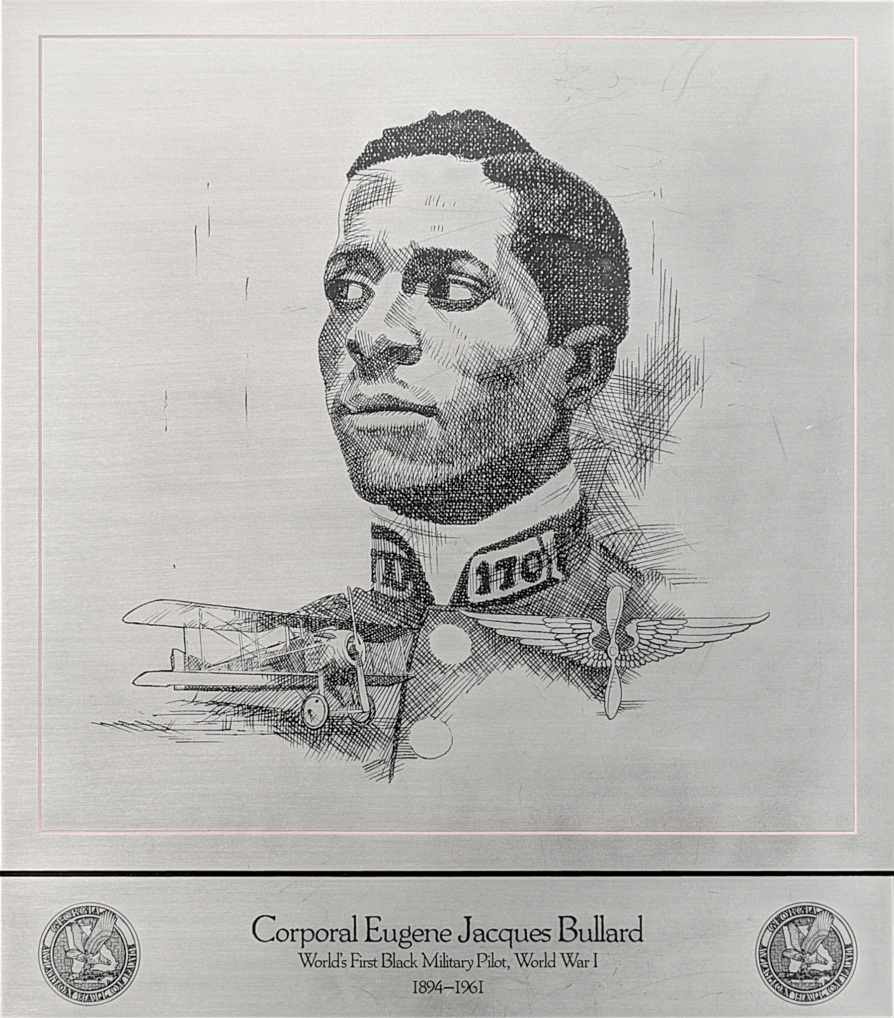 Corporal Eugene Jacques Bullard (1894 - 1961)